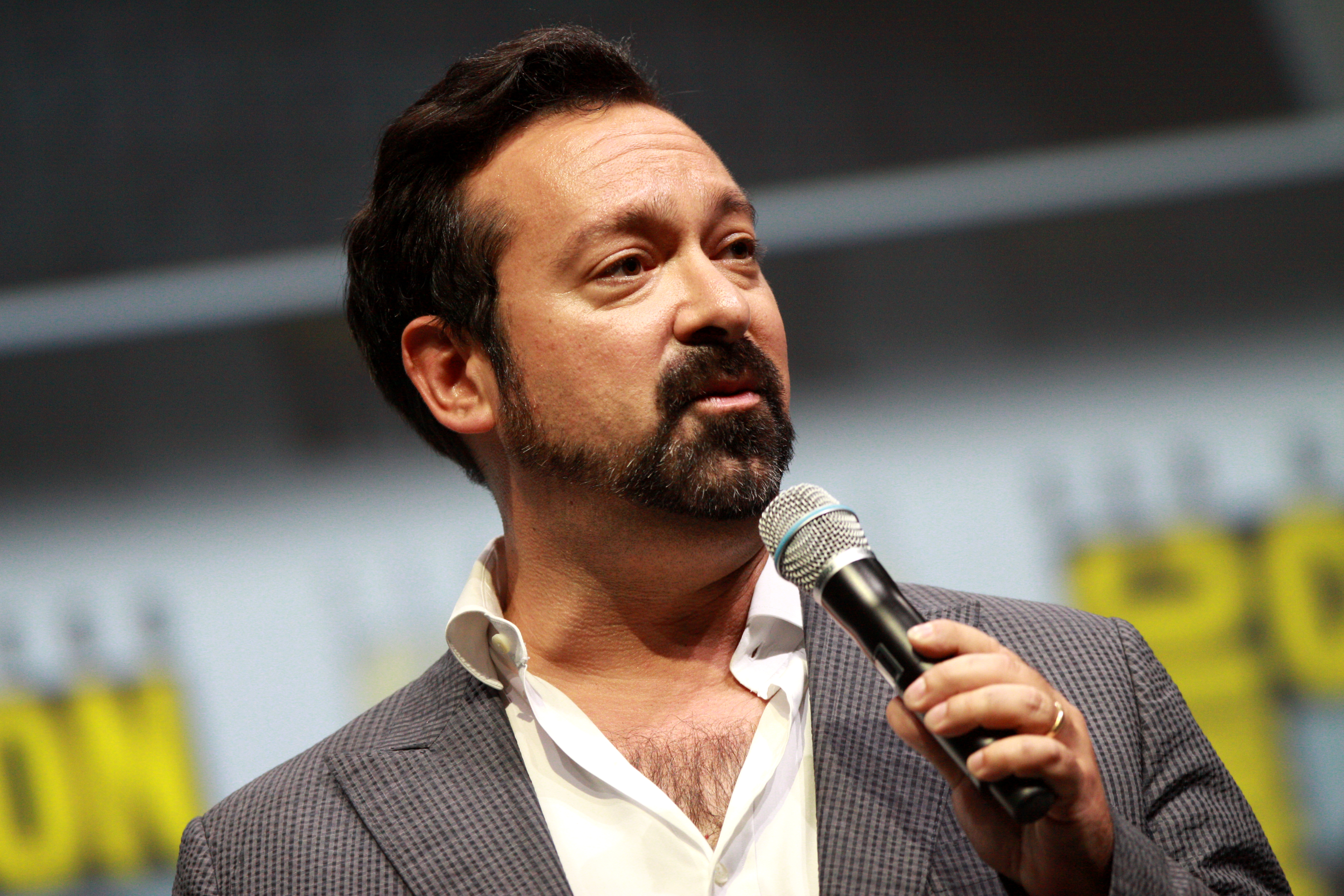 James Mangold speaking at the 2013 San Diego Comic Con International, for "The Wolverine", at the San Diego Convention Center in San Diego, California.